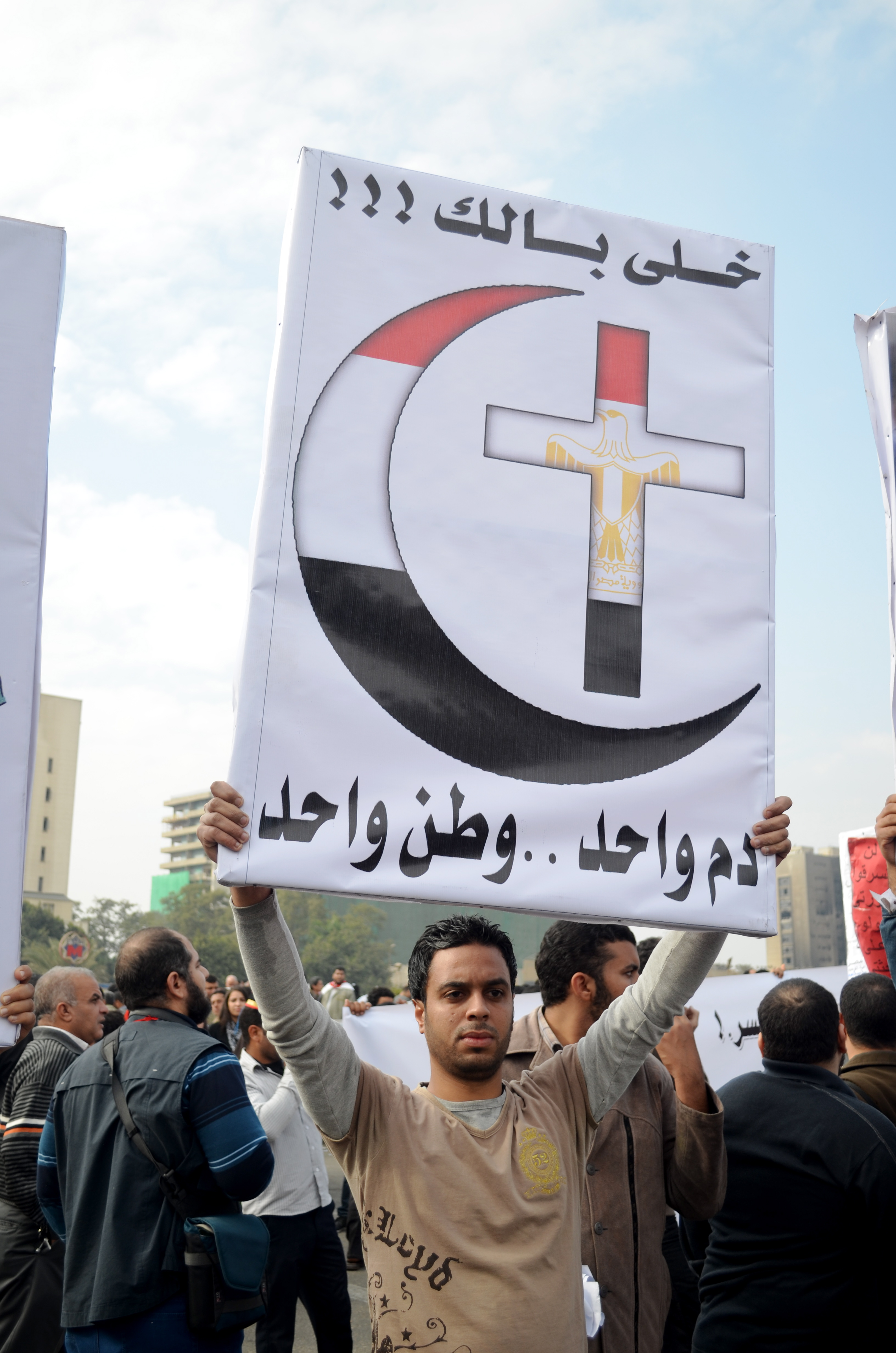 "Pay attention!!! One blood, one nation," reads this sign featuring a Christian cross and an Islamic crescent. The Tahrir protest was powered by a huge Islamist turnout, and a recent Coptic Christian march through Cairo was attacked by local men who threw rocks and chanted, "Islamic, Islamic".